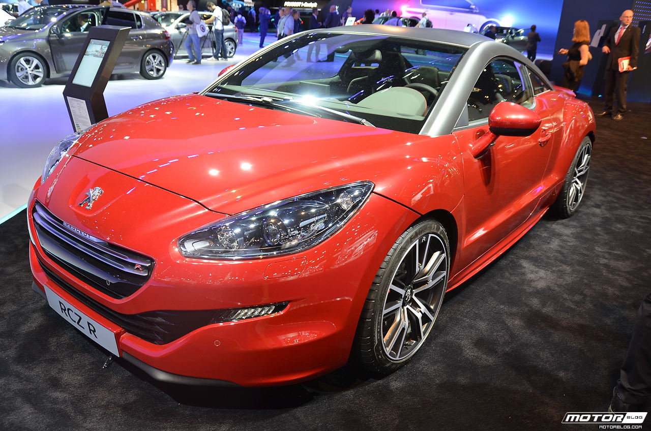 IAA Frankfurt 2013: Peugeot RCZ R / Photo: Raphael Jahn ______________________ Please feel free to use this image for FREE under the Creative Commons (CC) licence. However, if you use the image, pls set a backlink to and give credit as following: "Image: ". For highres images or any other inquiries pls contact mailto: . Thanks.